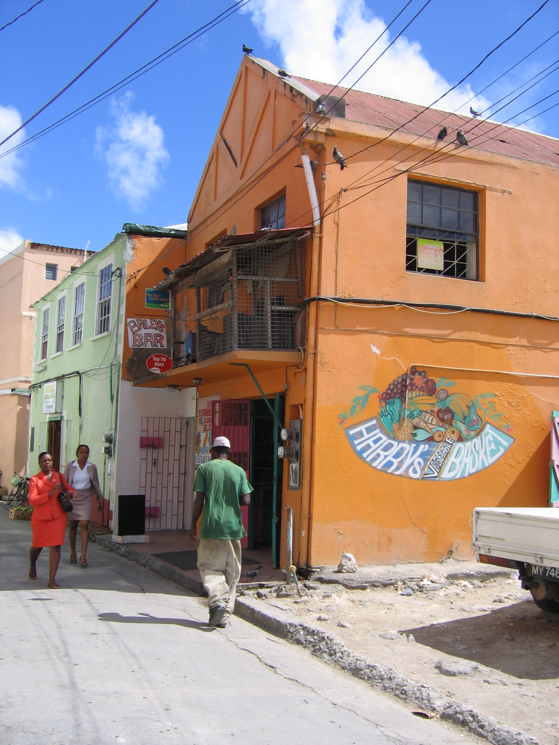 Middle Street near Victoria, Bridgetown, Saint Michael, Barbados.